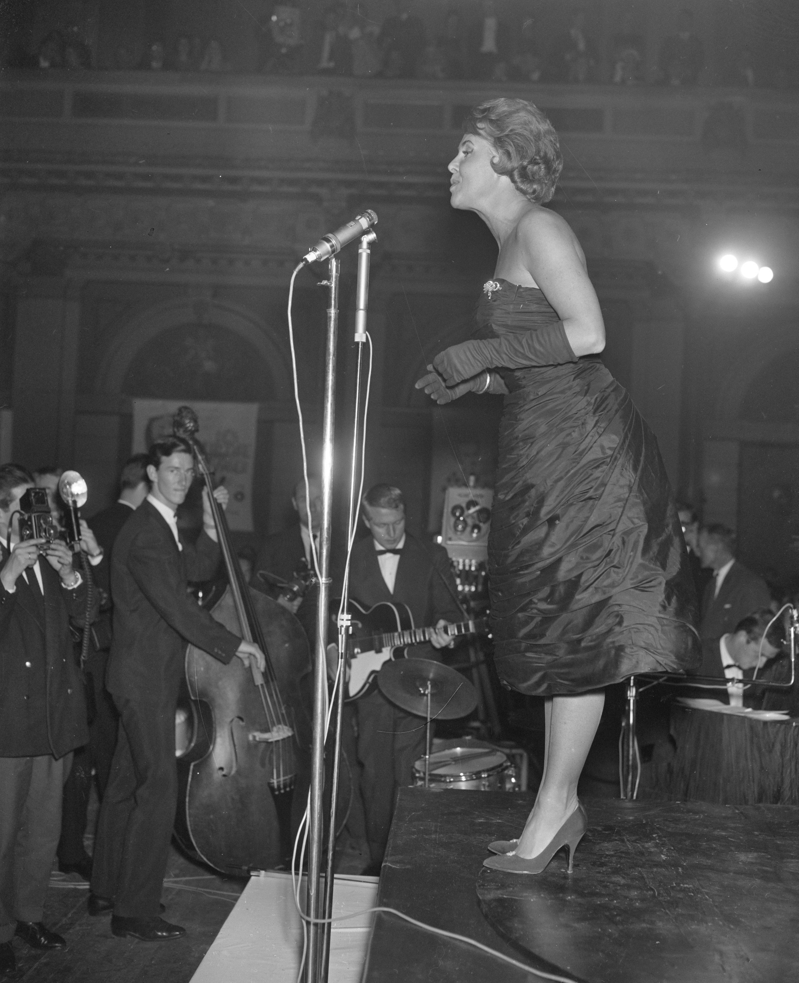 Rita Reys performing at the Grand Gala du Disque 1960 (Concertgebouw Amsterdam NL, 22 Oct. 1960)